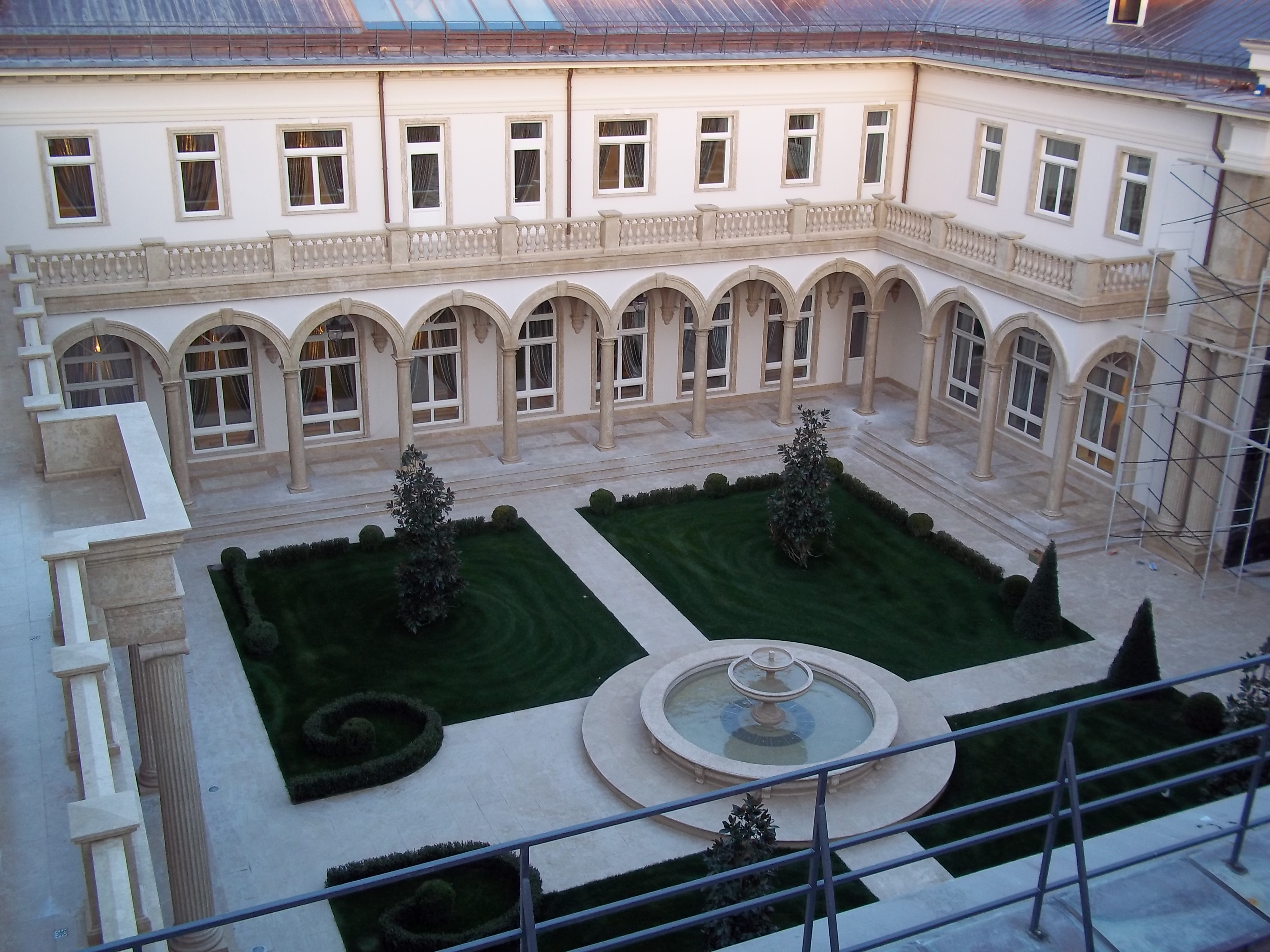 Courtyard of "Putin's Palace", near the village of Praskoveevka in Krasnodar Krai, Russia.